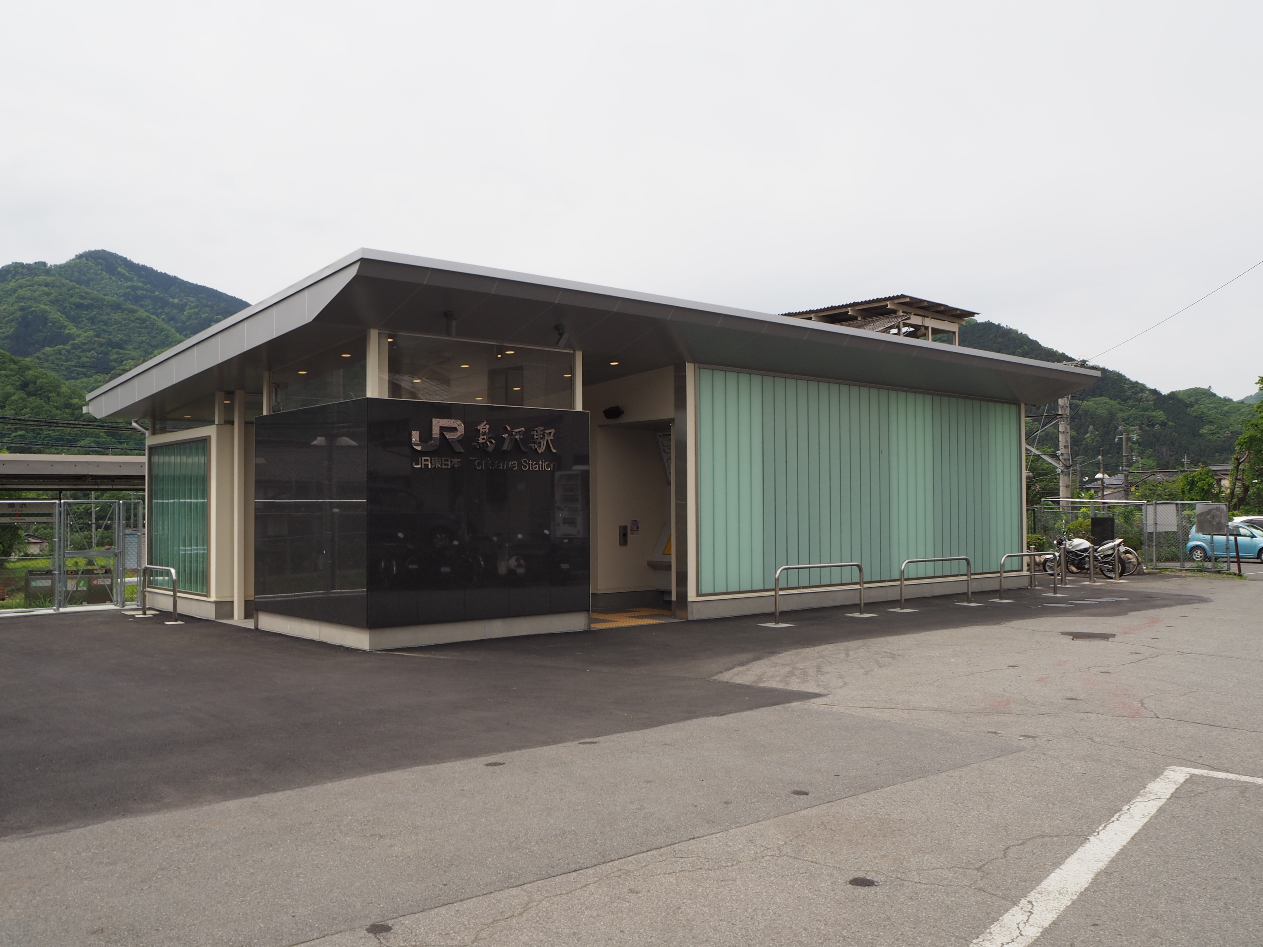 Torisawa Station